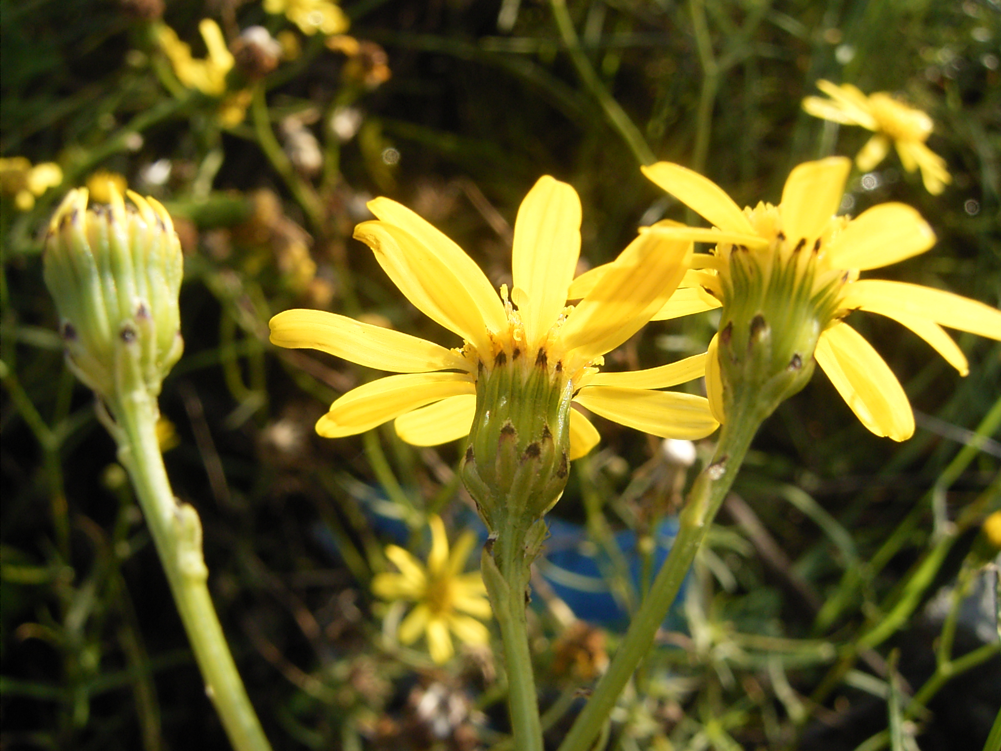 Deze foto toont de bloemen van het Bezemkruiskruid. Ik nam de foto in de buurt van station Mariahoeve in Den Haag. This photo shows the flowers of Senecio inaequidens I took this picture on November 7, 2005 in The Hague.